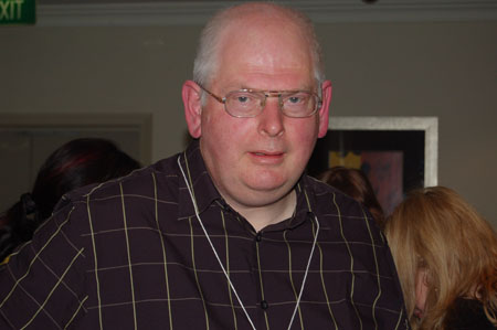 Australian science fiction fan and editor Bruce Gillespie at Convergence 2 convention. Photograph by Catriona Sparks.